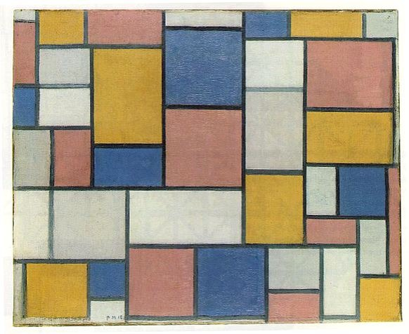 Composition with color planes and gray lines